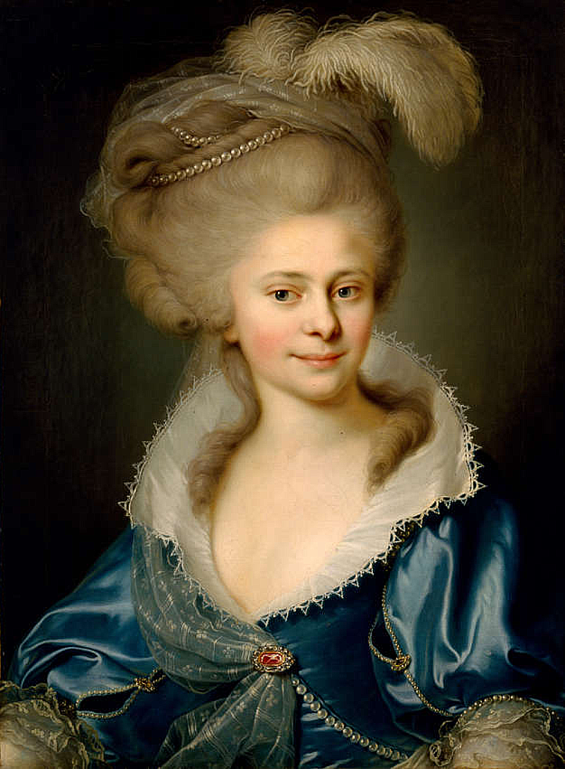 Portrait of Duchess Elisabeth of Württemberg (1767-1790)